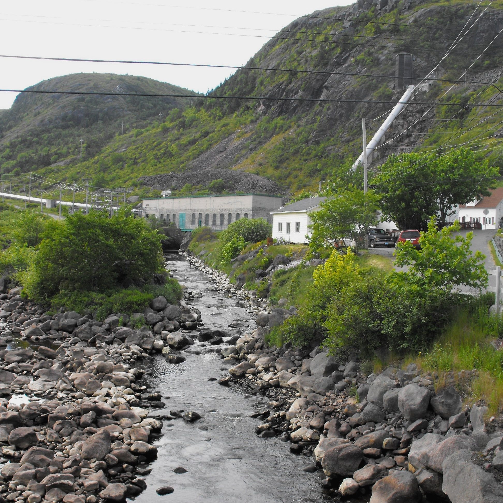 View of Petty Harbour Generating Station, Newfoundland, 2010